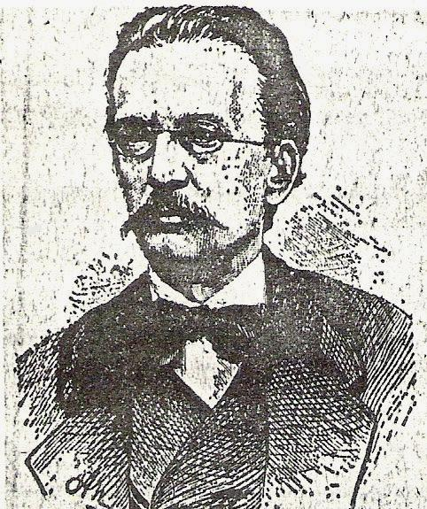 Drawing depicting chess problemist Josef Plachutta (1827-1883)